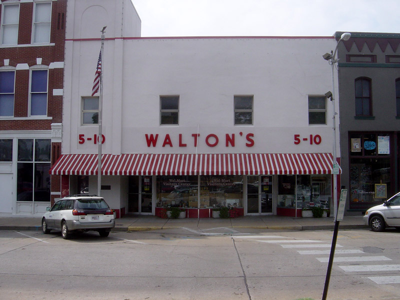 Sam Walton's original Walton's Five and Dime, now the Wal-Mart Visitor's Center, Bentonville. Photo taken by Bobak Ha'Eri. September 2, 2006. Please observe license and properly cite in use outside Wikipedia.